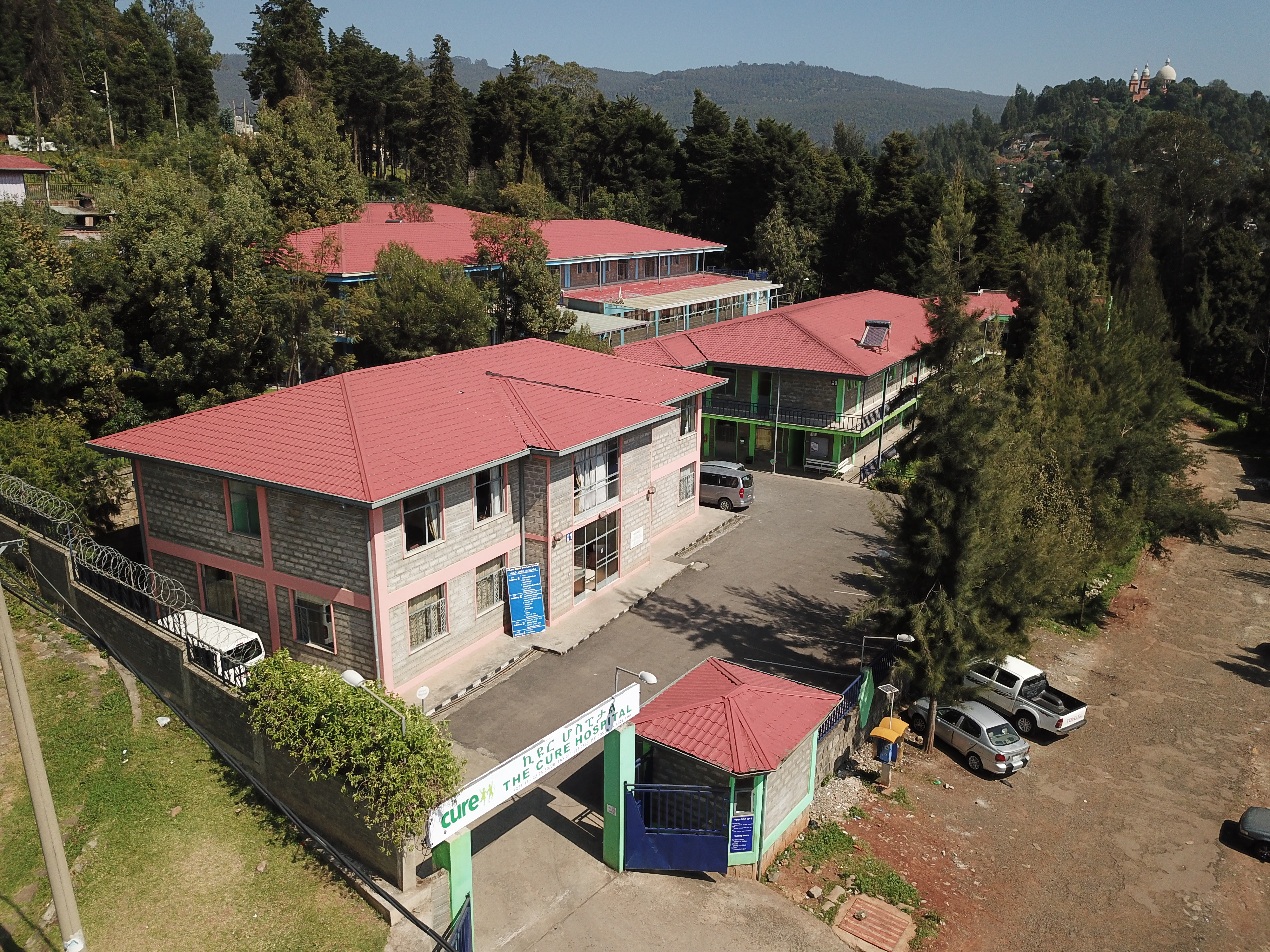 The CURE Ethiopia Children's Hospital in Addis Ababa, Ethiopia